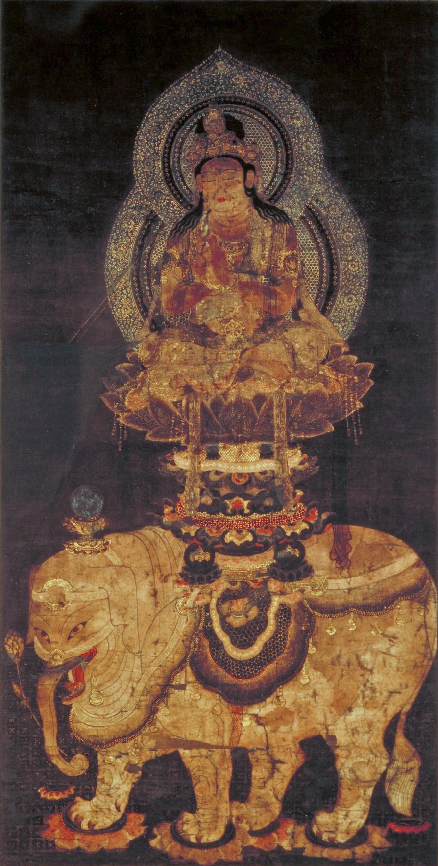 Fugen Bosatsu, Bujōji, Chizu, Tottori, Japan